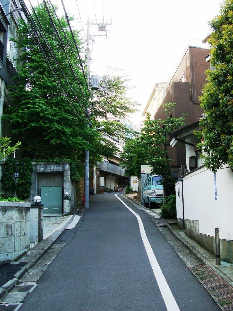 Nekko-zaka street at Onden, Tokyo (Jingu-mae 5, Shibuya city)